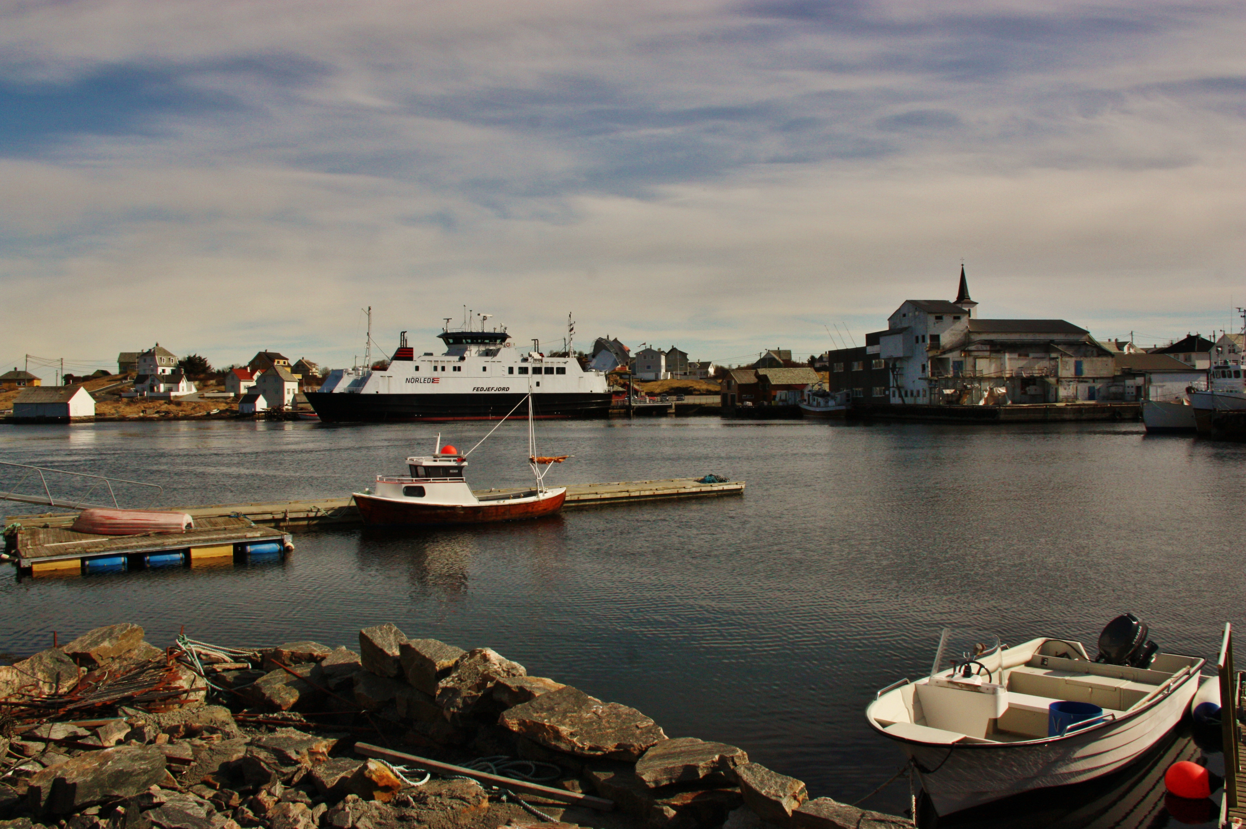 MF Fedjefjord in Fedje